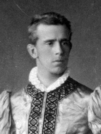 Young Crown Prince Rudolf in a historical costume.